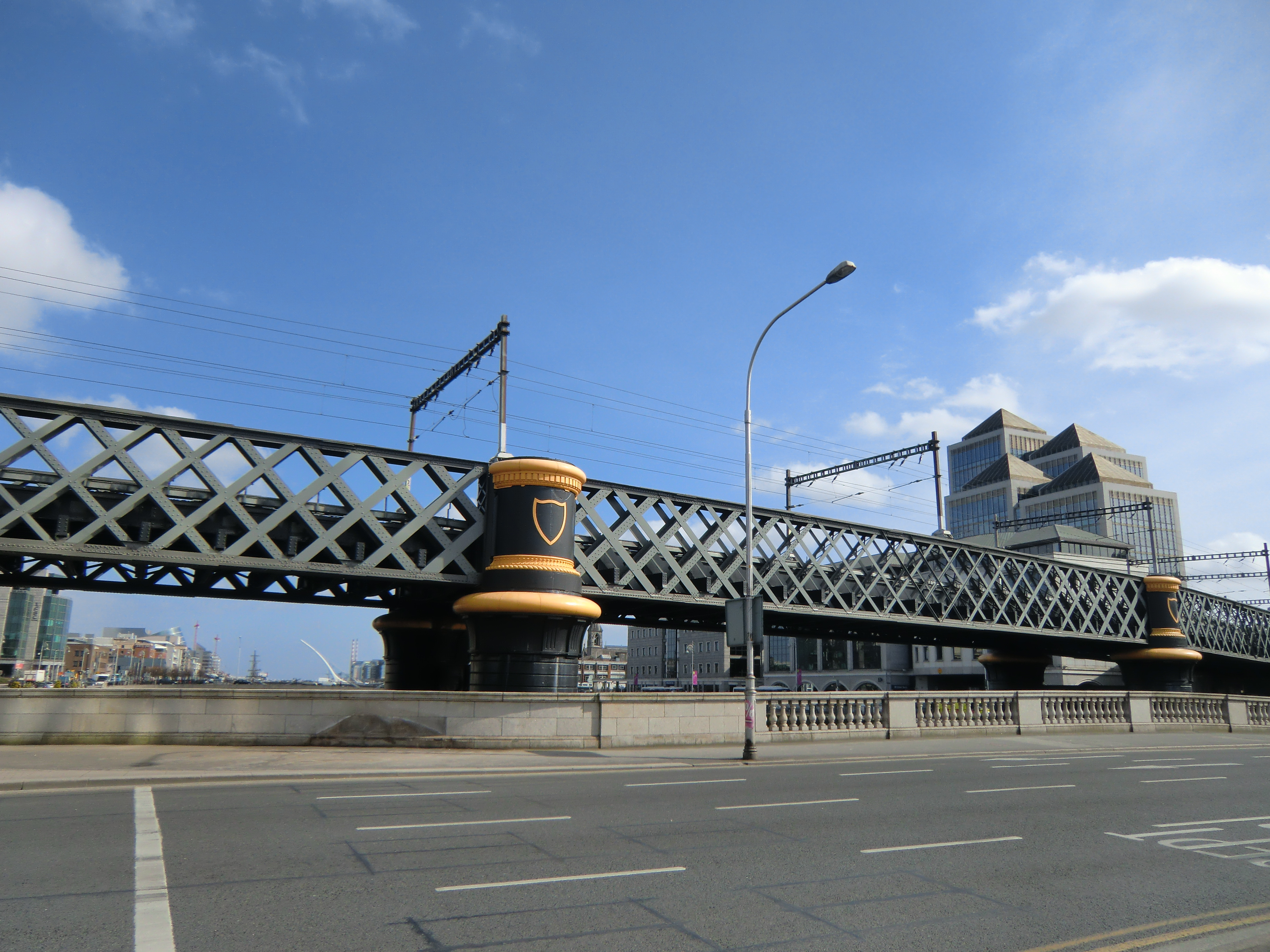 Loopline Bridge, Dublin, Ireland